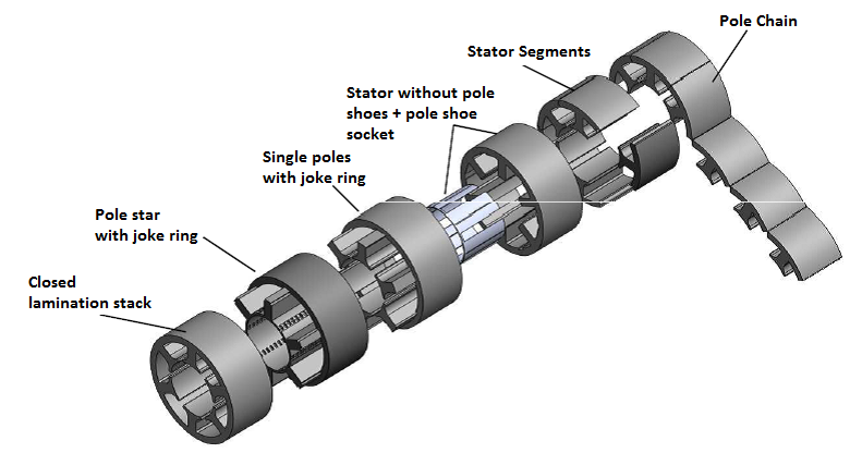 Verschiedene Designs Aufbau Stator EC Motoren en